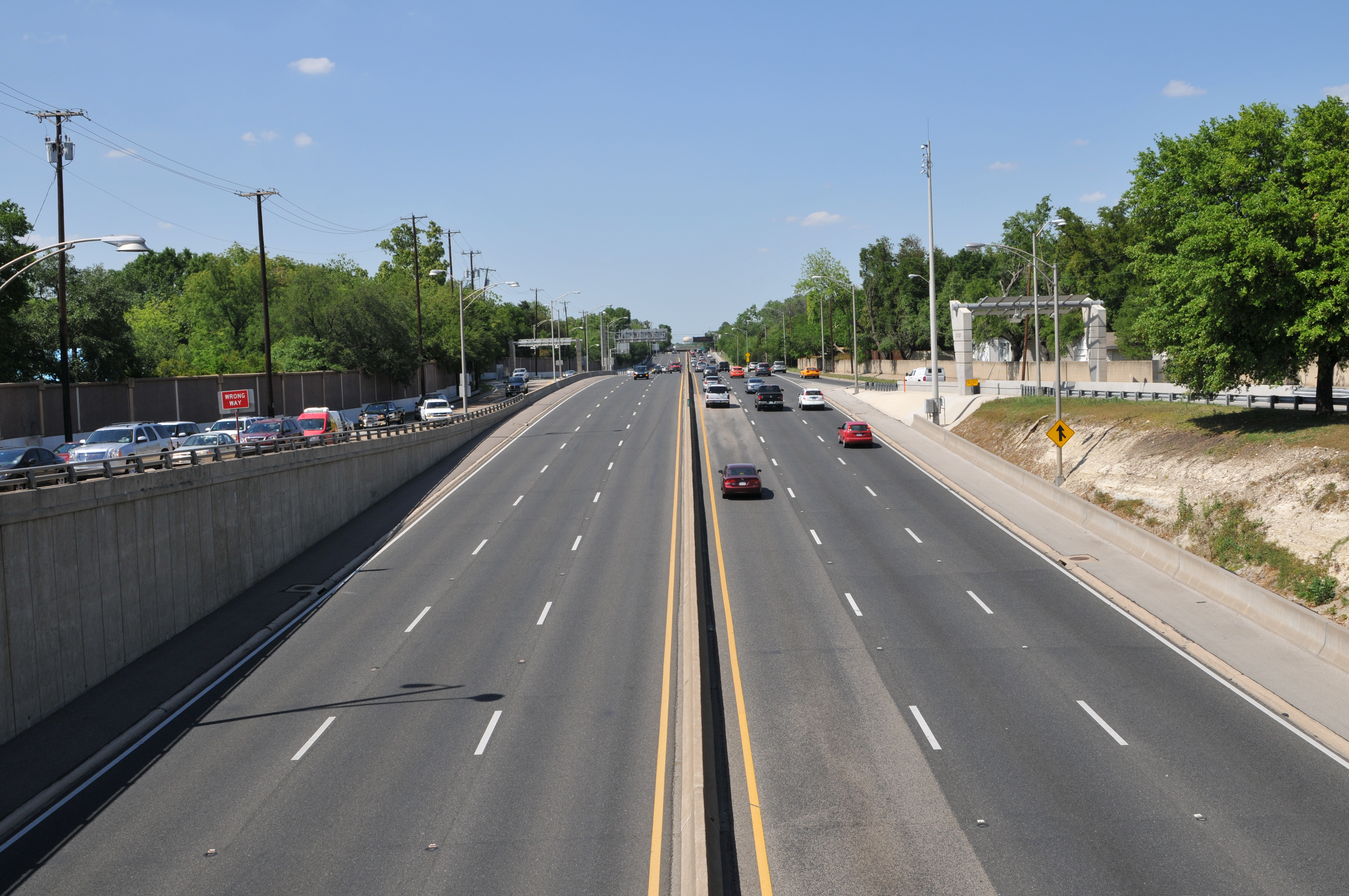 Dallas North Tollway north of Texas State Highway Loop 12 Northwest Highway